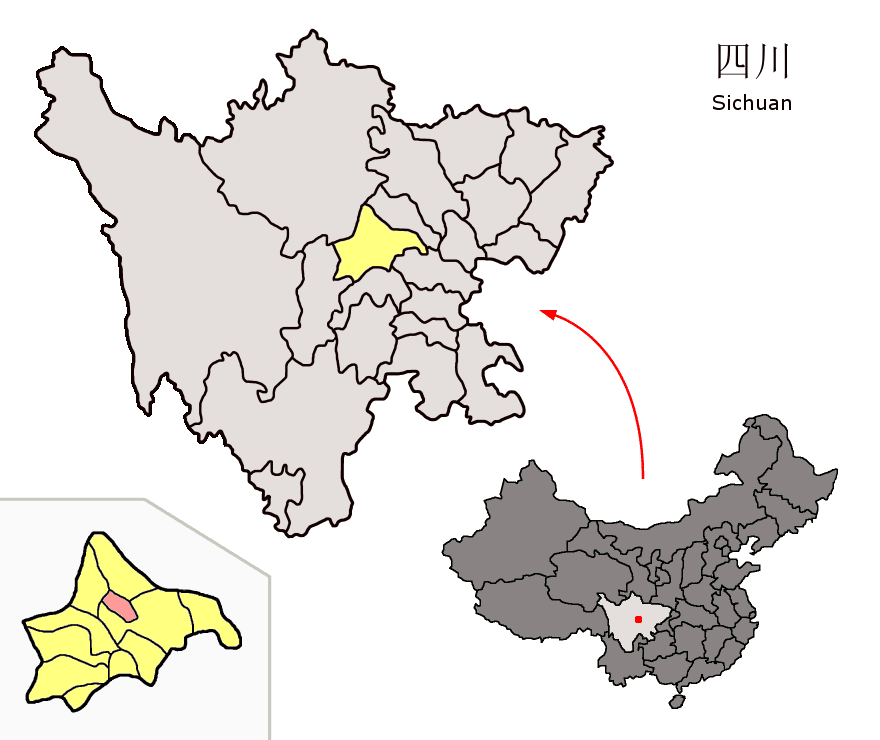 Location of Pi County (pink) and Chengdu Prefecture (yellow) within Sichuan province of China Map drawn in september 2007 using various sources, mainly : Sichuan province administrative regions GIS data: 1:1M, County level, 1990 Sichuan Counties map from